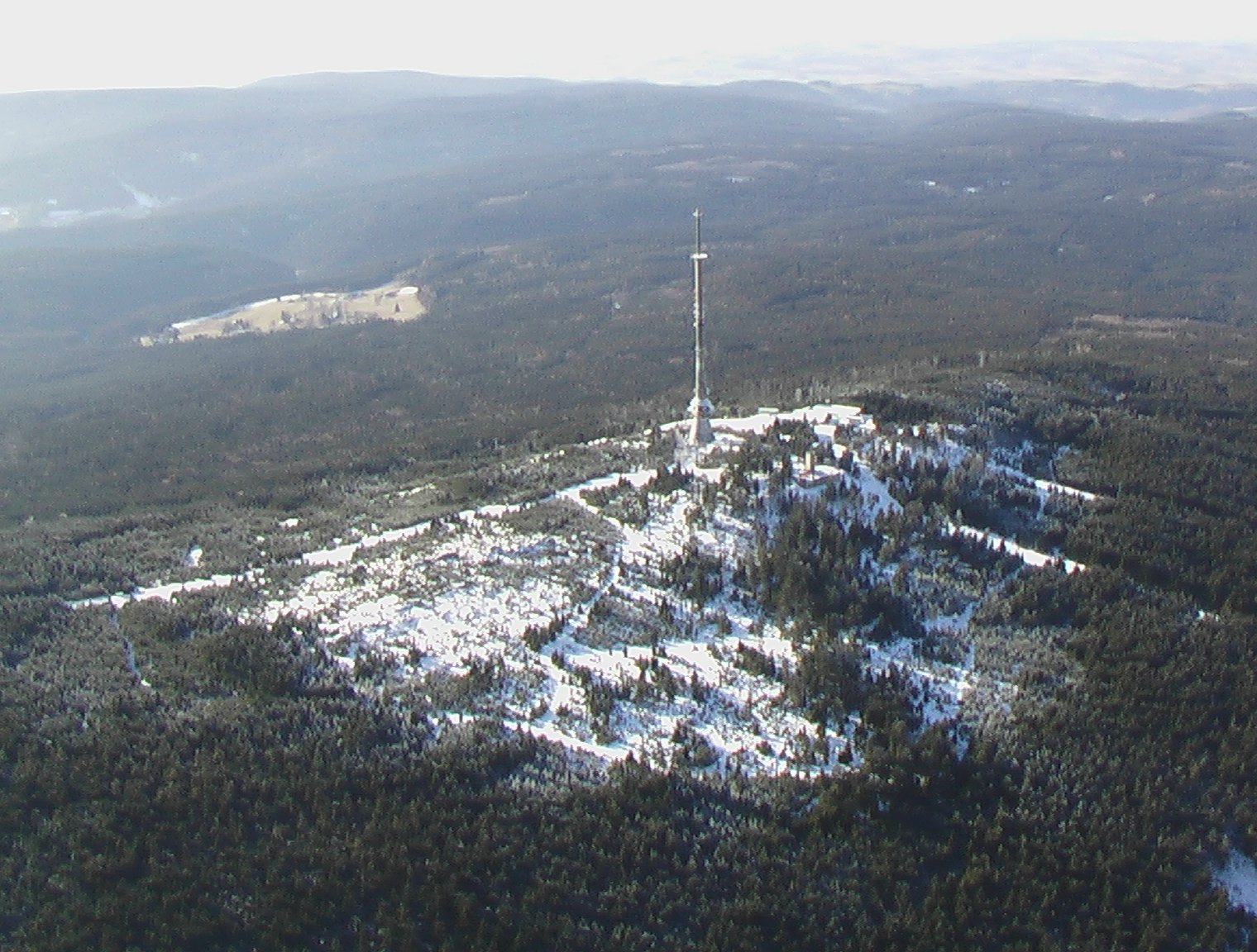 The Ochsenkopf in Jan 05. Bavaria, Germany